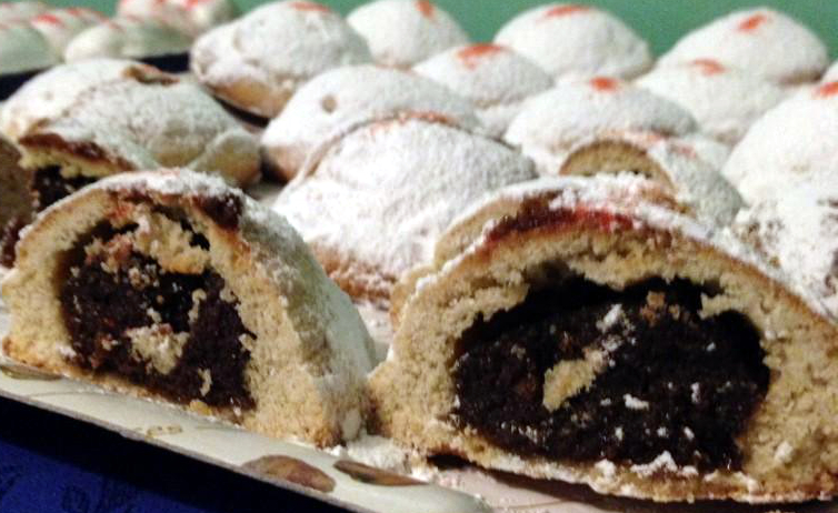 Pasticciotti di carne (or cardinali) from the town of Patti in Sicily, filled with a combination of almonds and meat and dusted with confectioners' sugar.